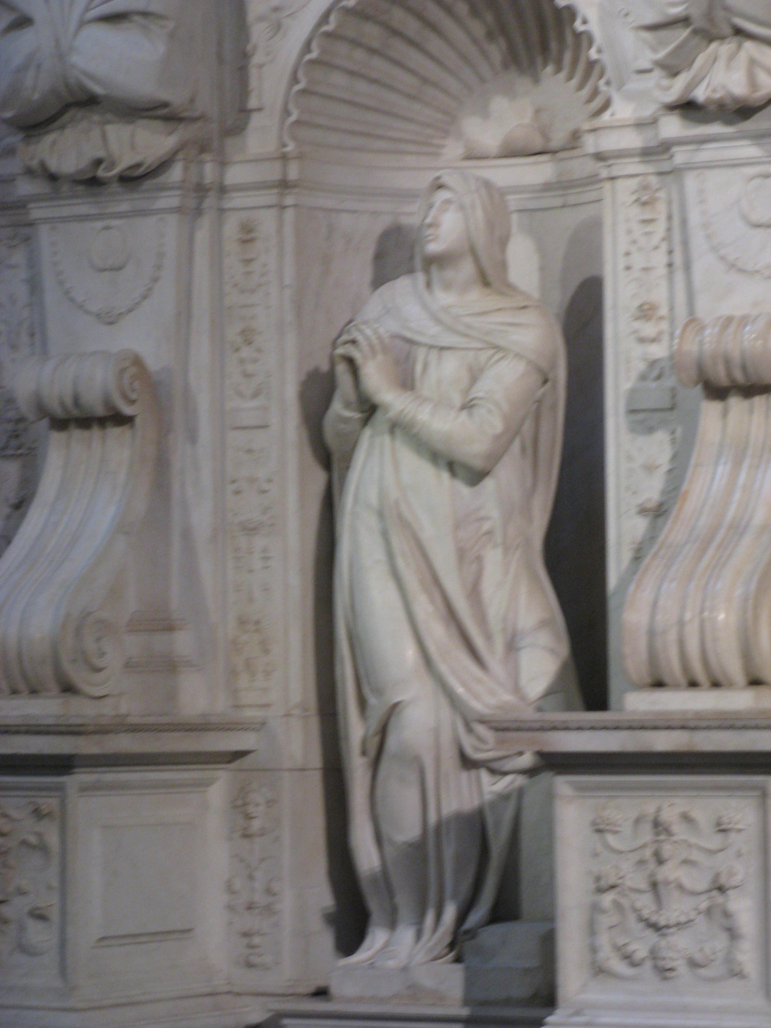 Michelangelo's Rachel at Michelangelo's grave for Julius II at San Pietro in Vincoli.